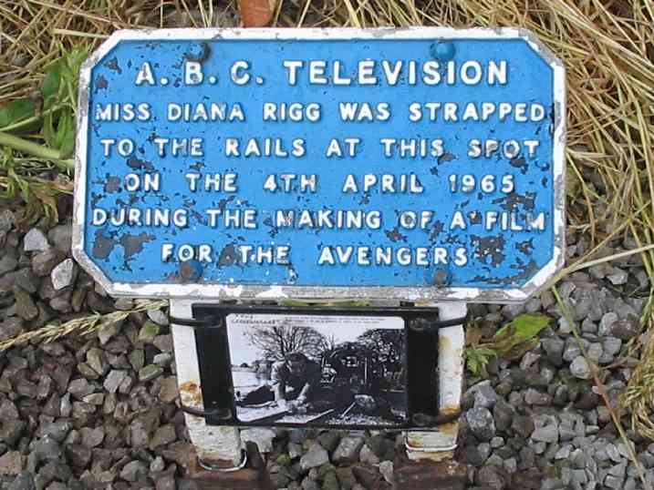 Cast marker plate that was presented by ABC television in 1965 to mark the location of where Miss Diana Rigg was tied to the track at the Stapleford Miniature Railway Leics during filming of the "Grave Diggers" episode of "The Avengers"